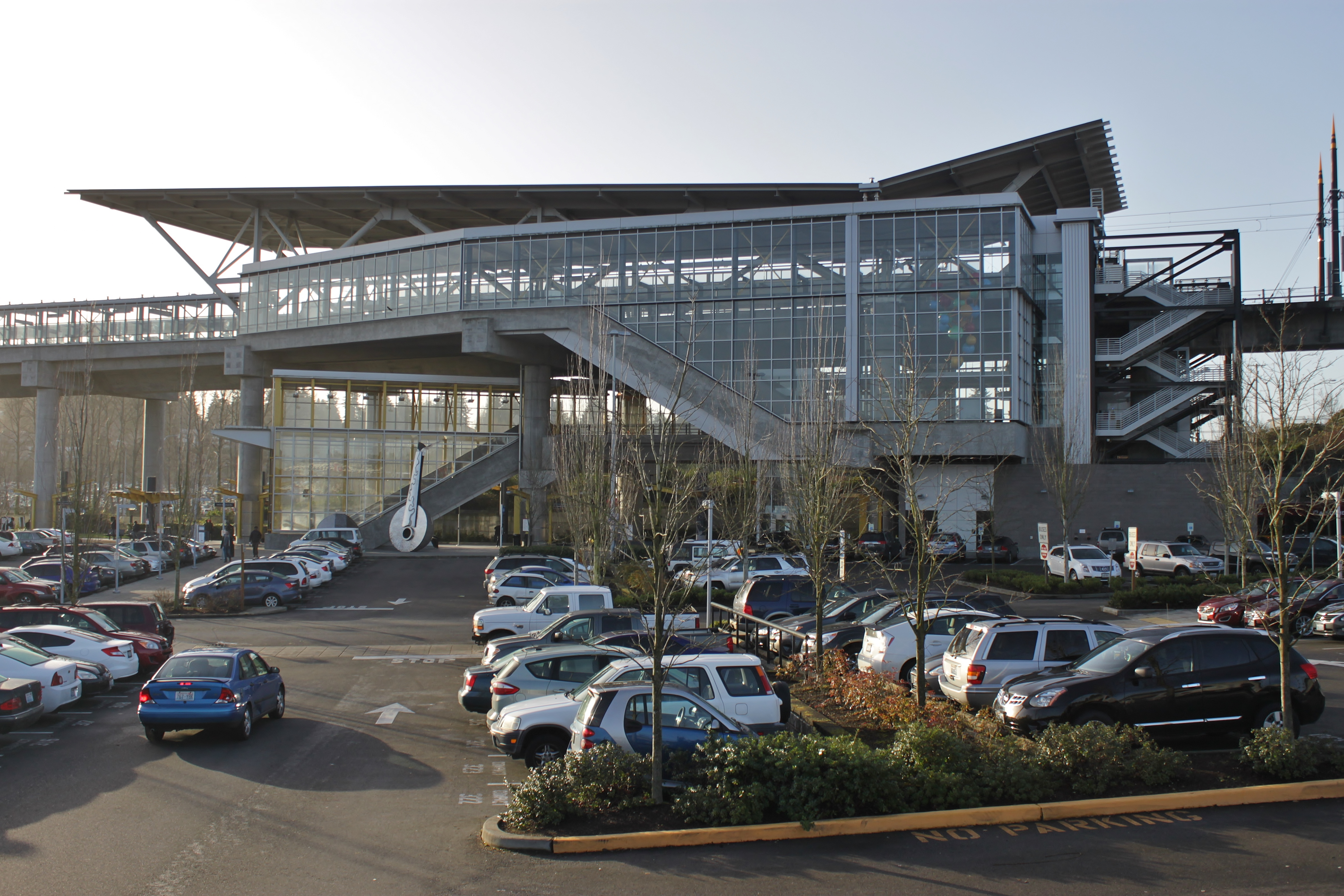 Tukwila International Boulevard station in Tukwila, Washington, a light rail station on the Central Link line in Seattle.